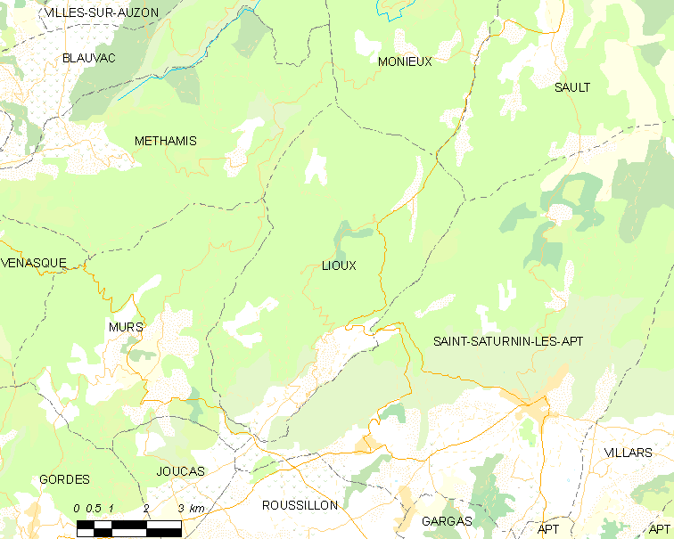 Map of French municipality Lioux